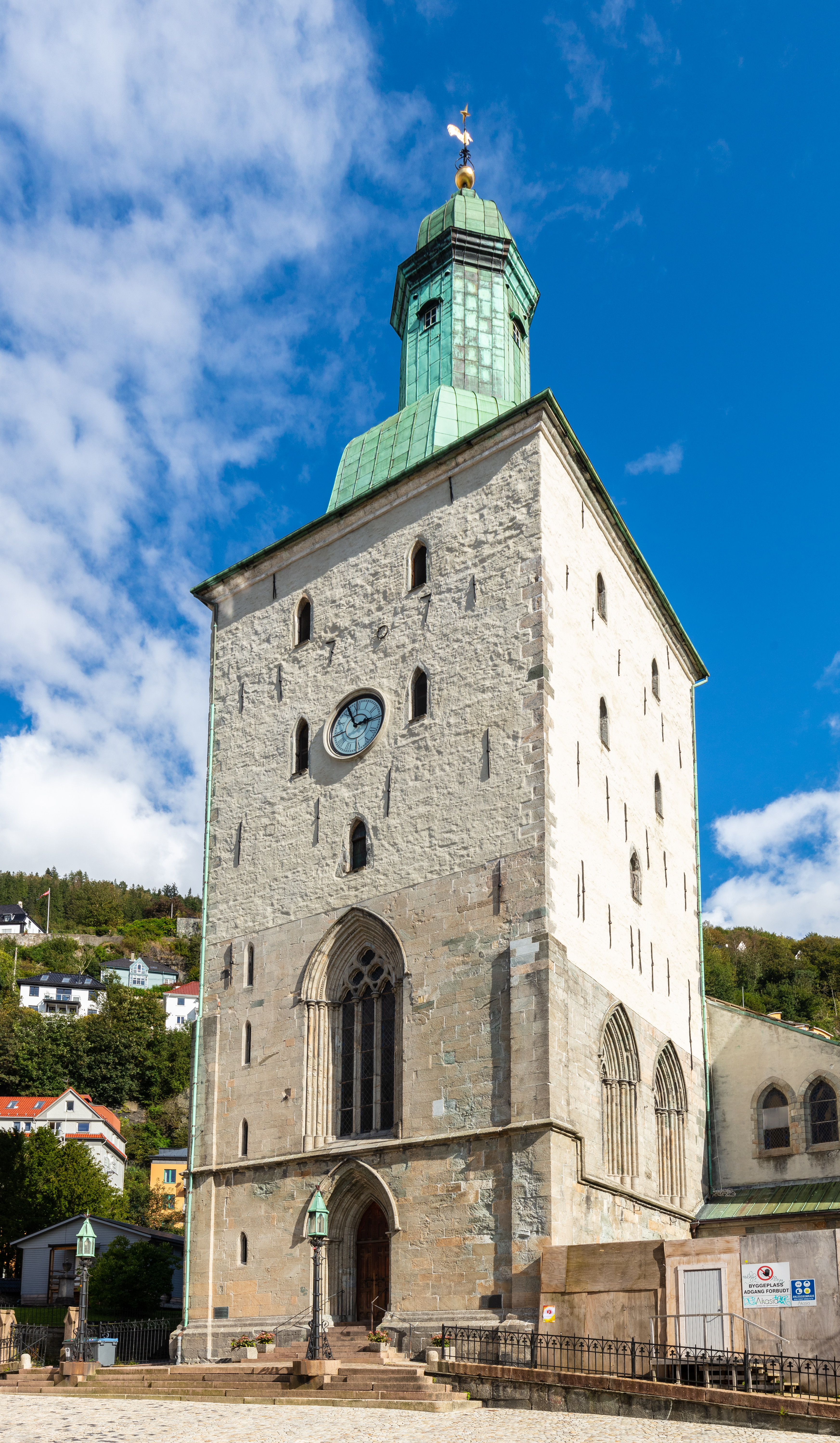 Cathedral, Bergen, Norway